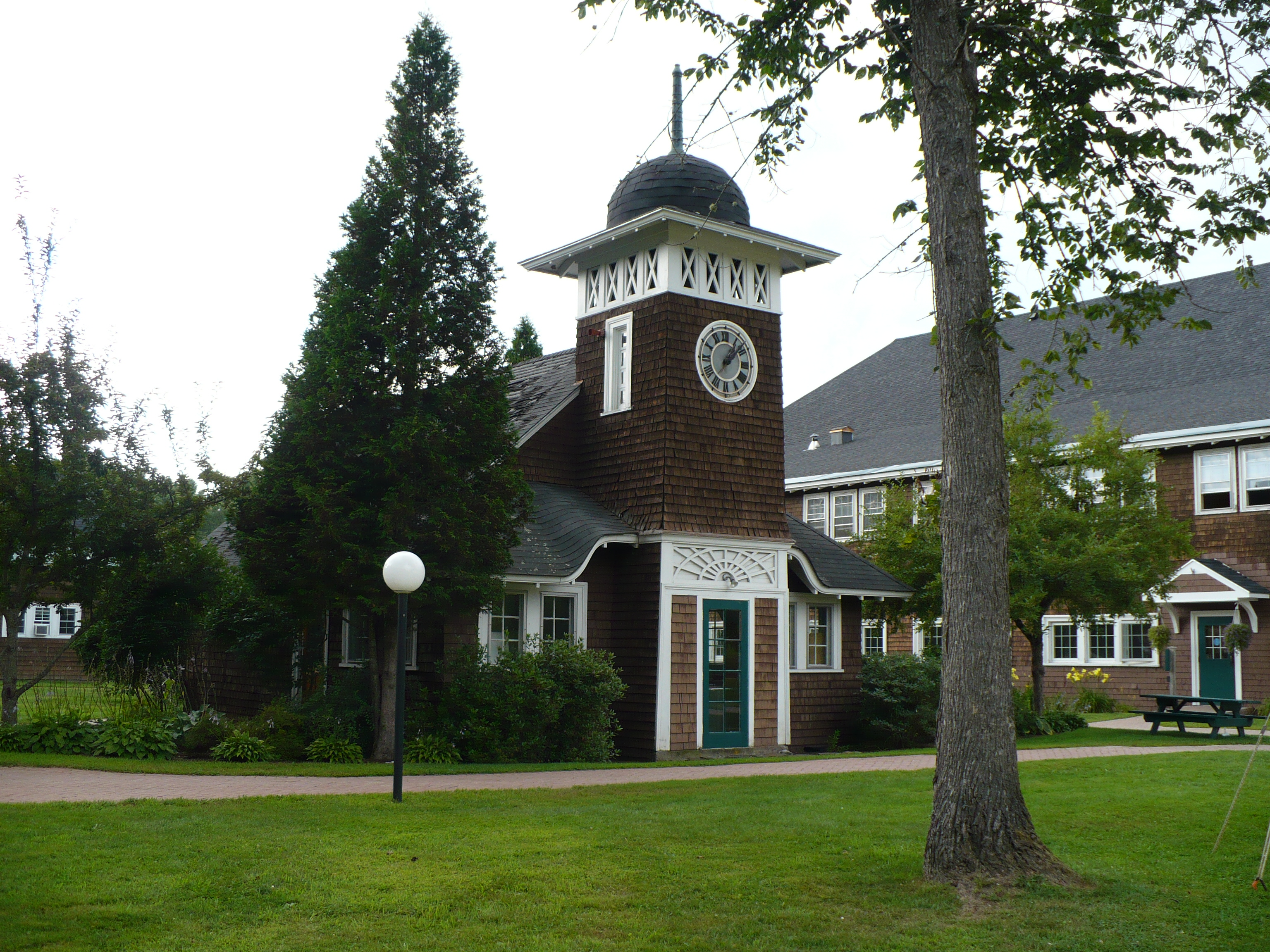 Goddard College Clockhouse